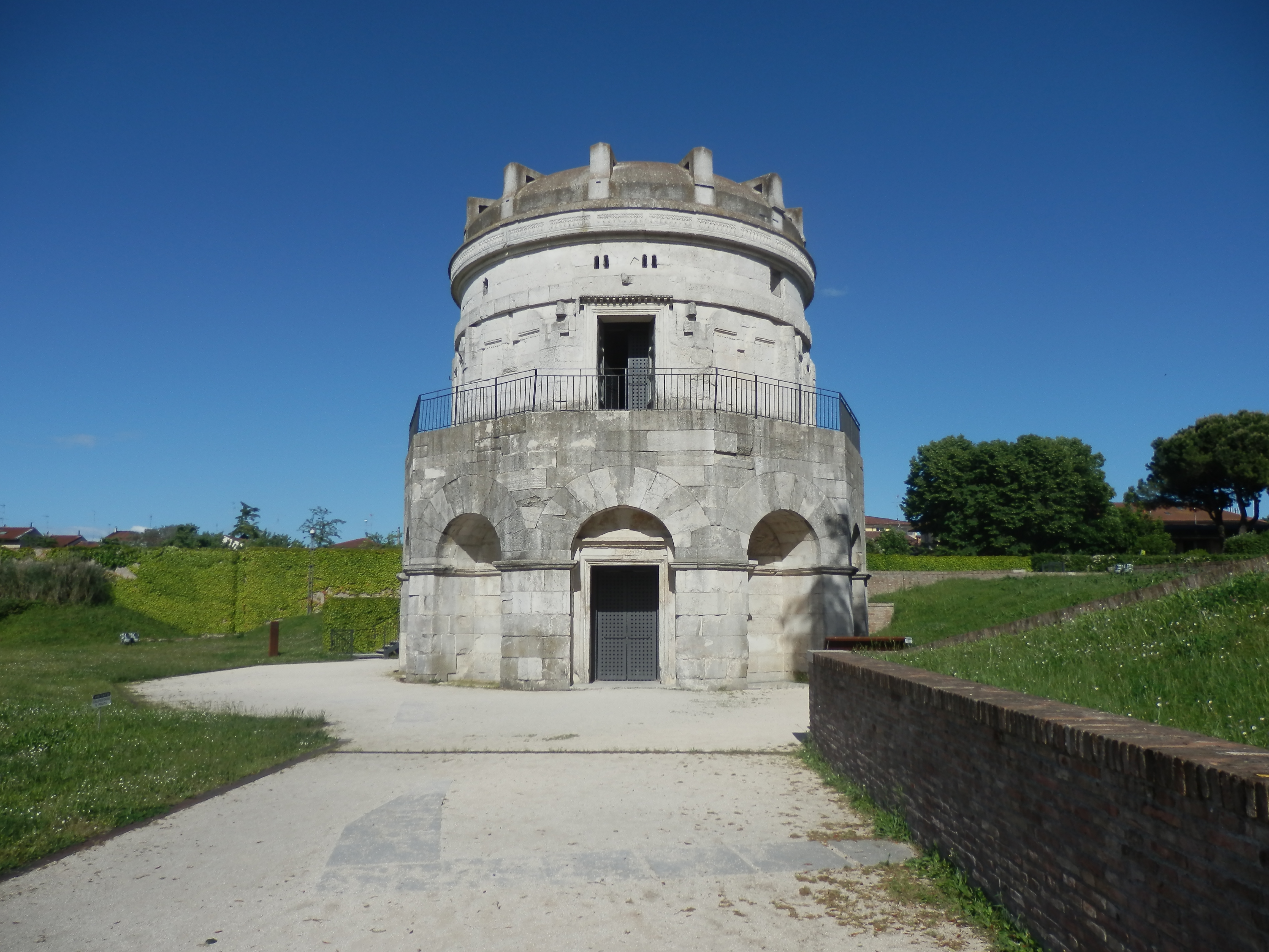 Mausoleum of Theodoric (Ravenna)12